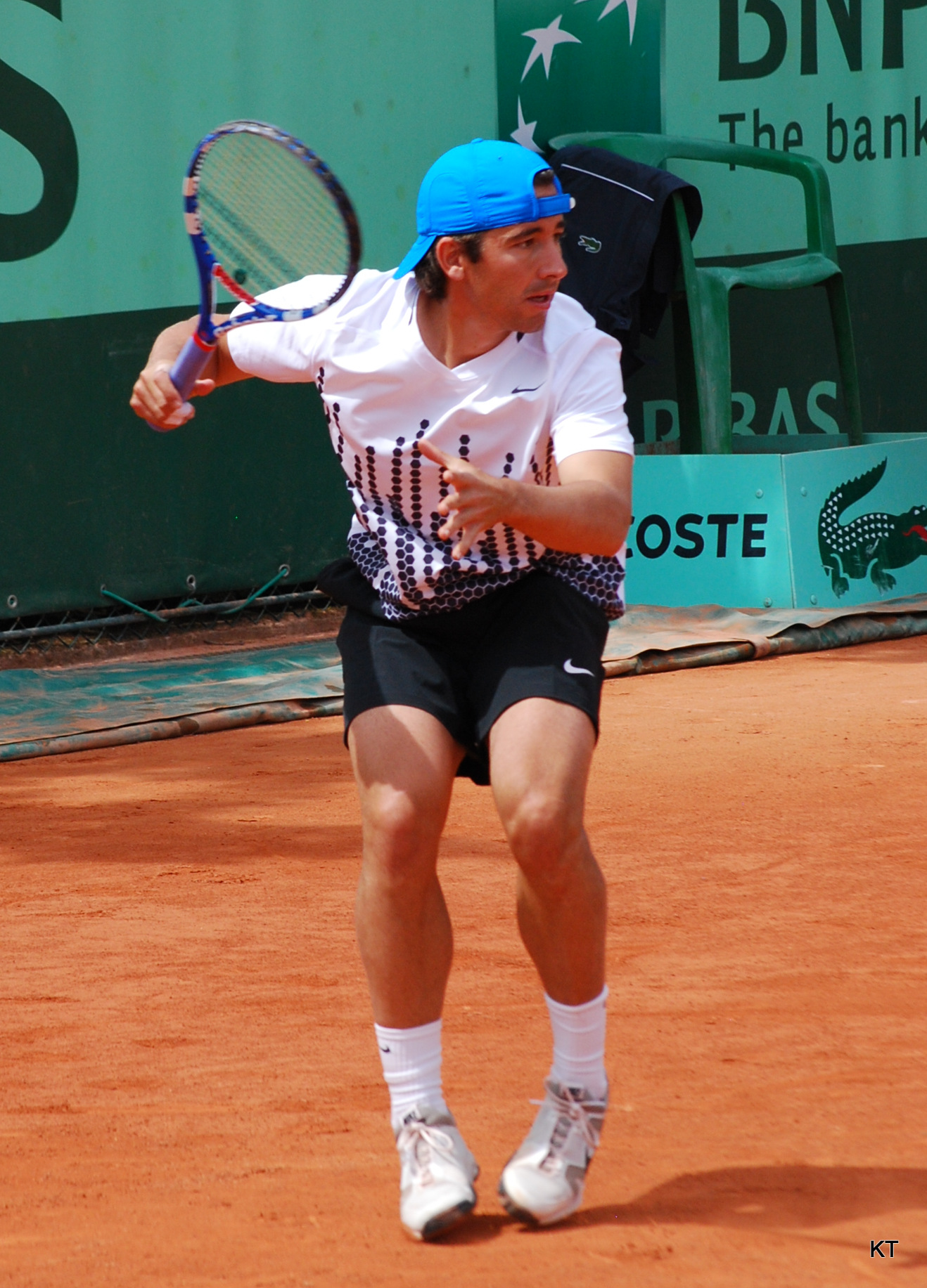 Marc López, professional tennis player from Spain at Roland Garros 2011